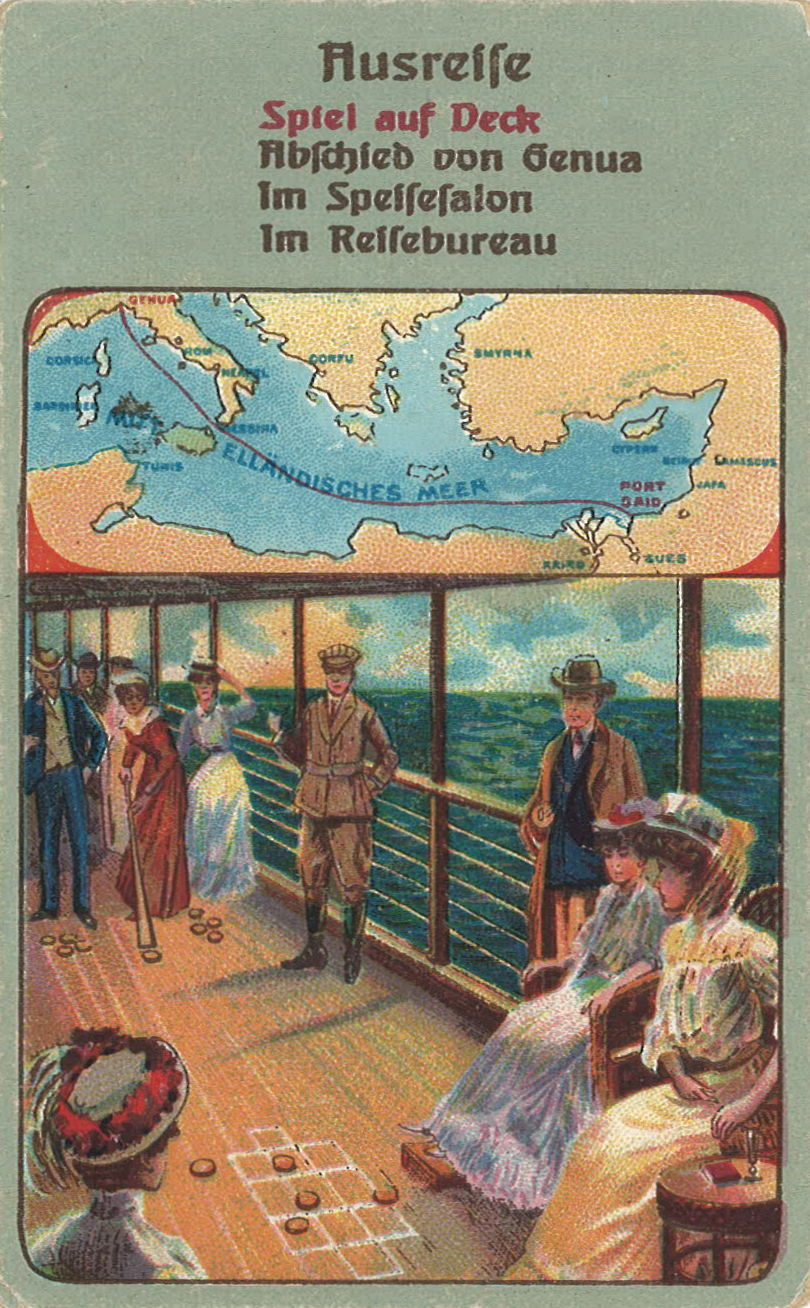 A playing card of a Spear's quartet game "world travel" (1913)